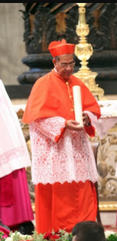 Cardinal Patrick D'Rozario was the Archbishop of Dhaka when he was created a cardinal last November 19, 2016 and given the titular church of Nostra Signora del Santissimo Sacramento e Santo Martiri Canadesi.